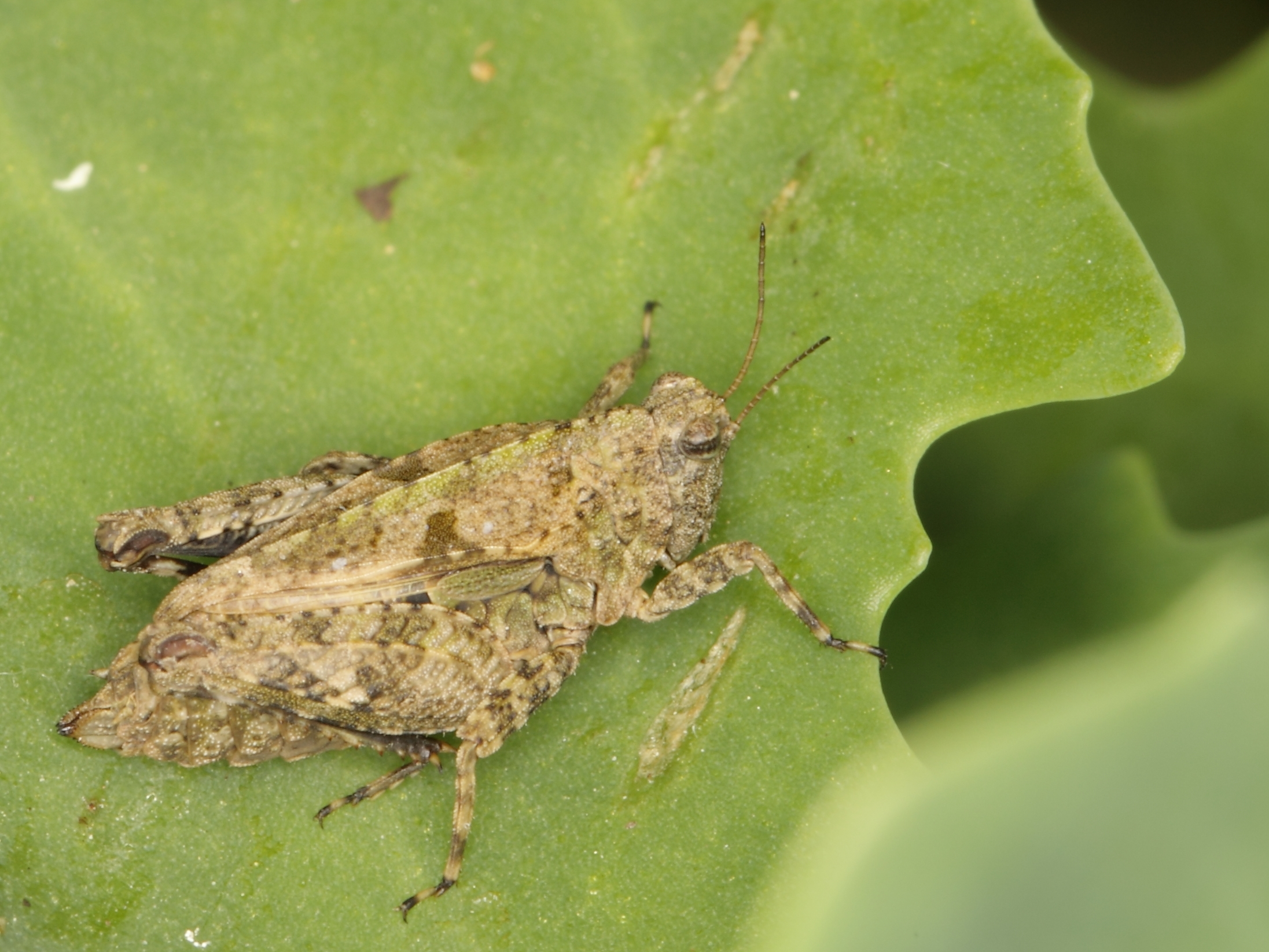 L: 8-11mm Phylum: Arthropoda Subphylum: Hexapoda Class: Insecta Order: Orthoptera Suborder: Caelifera Ander, 1939 Superfamily: Tetrigoidea Family: Tetrigidae (pygmy grasshoppers, Dornschrecken) Subfamily: Tetriginae Genus: Tetrix LATREILLE, 1802 Tetrix undulata Sowerby, 1806 (Common Groundhopper, Gemeine Dornschrecke) ? [det. "taka-" 2013, based on this photo] more info (German): Germany, Hessen, Bad Hersfeld: Ottrau, ca. 300-400m asl., 10.06.2012 IMG_1093